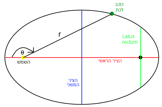 measures of an elipse, Hebrew